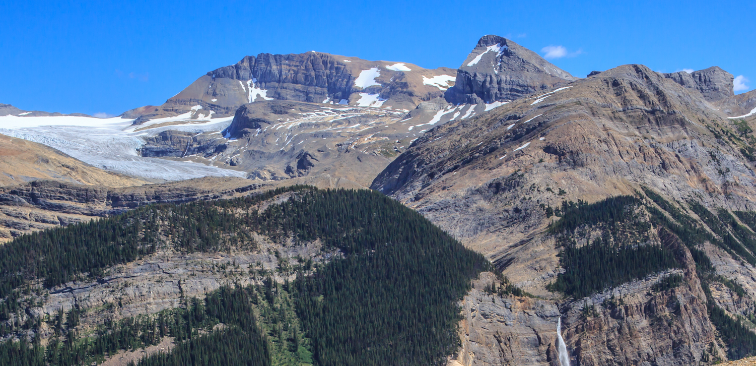 Mount Daly and Mount Niles and Takakkaw Falls seen from Iceline Trail. Yoho National Park, Canada